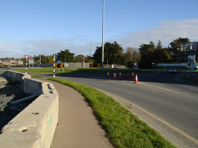 Carrickmines Roundabout Built as a consequence of the M50 (nearby) this new alignment provides a new (and shorter) link to Ballyogan.